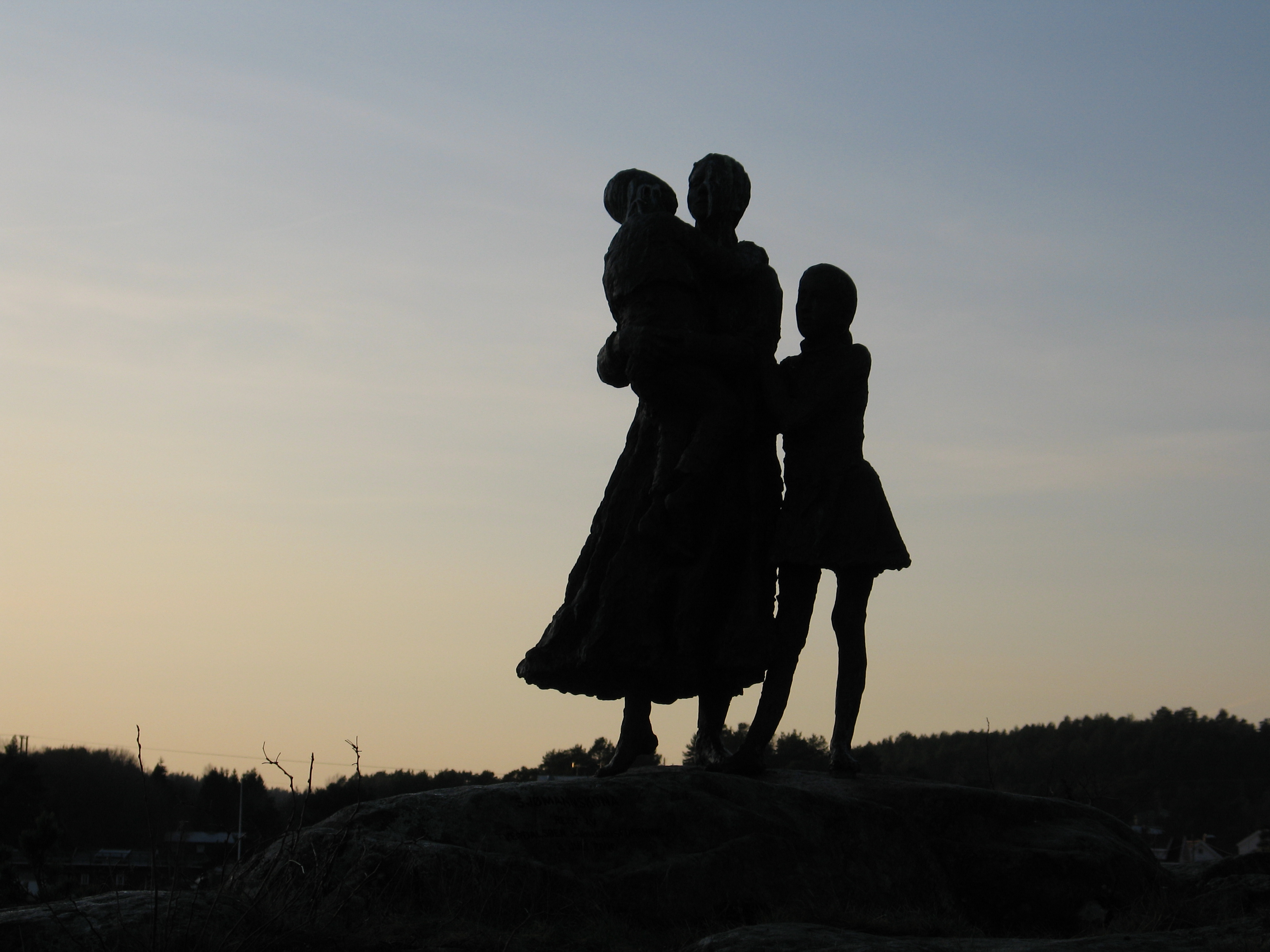 Sculpture Sjømannskona (the sailors wife) in Kilsund in Arendal municipality in Norway.